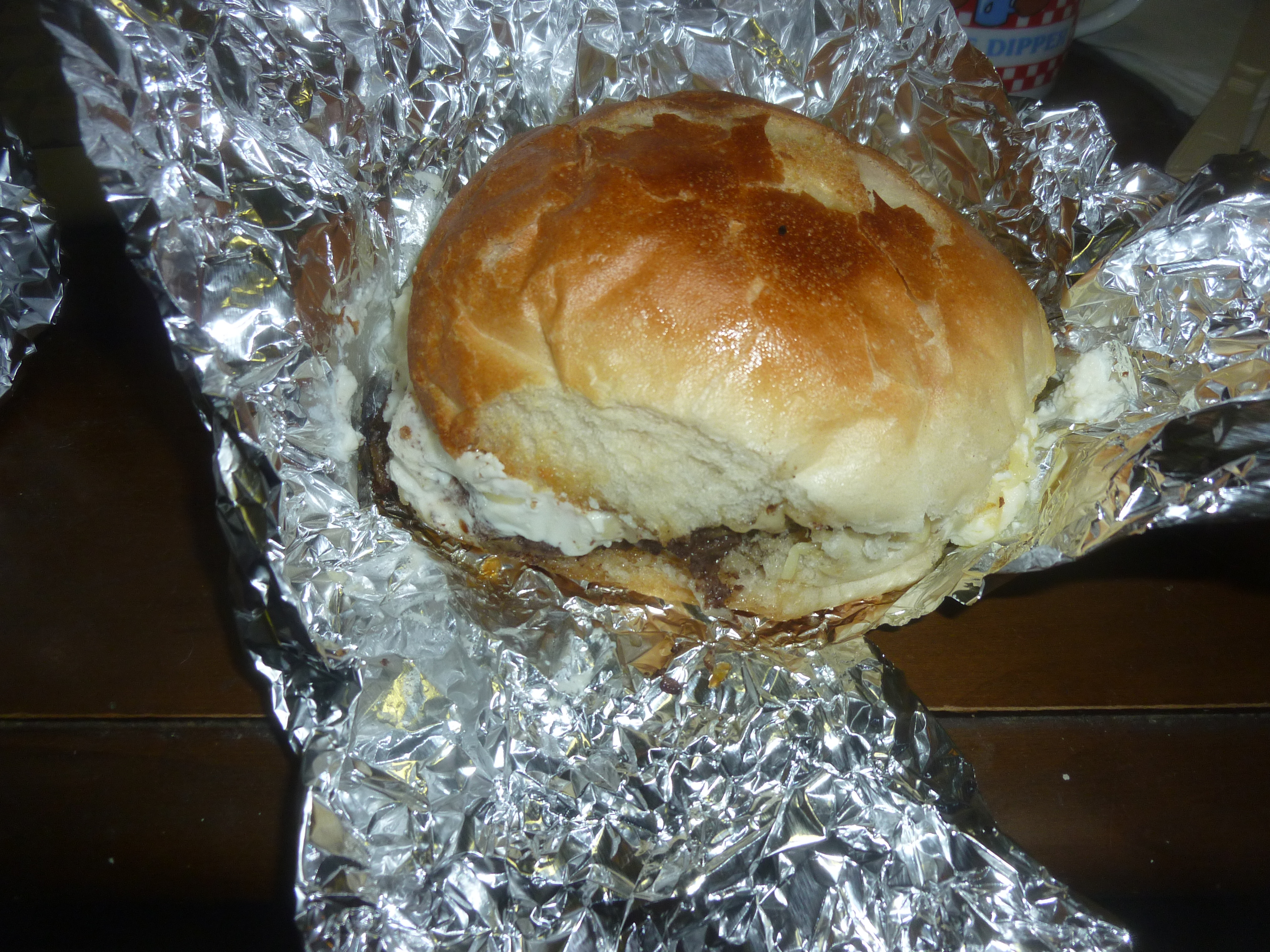 Photo of a vastedda sandwich made in bensonhurst, brooklyn, nyc.